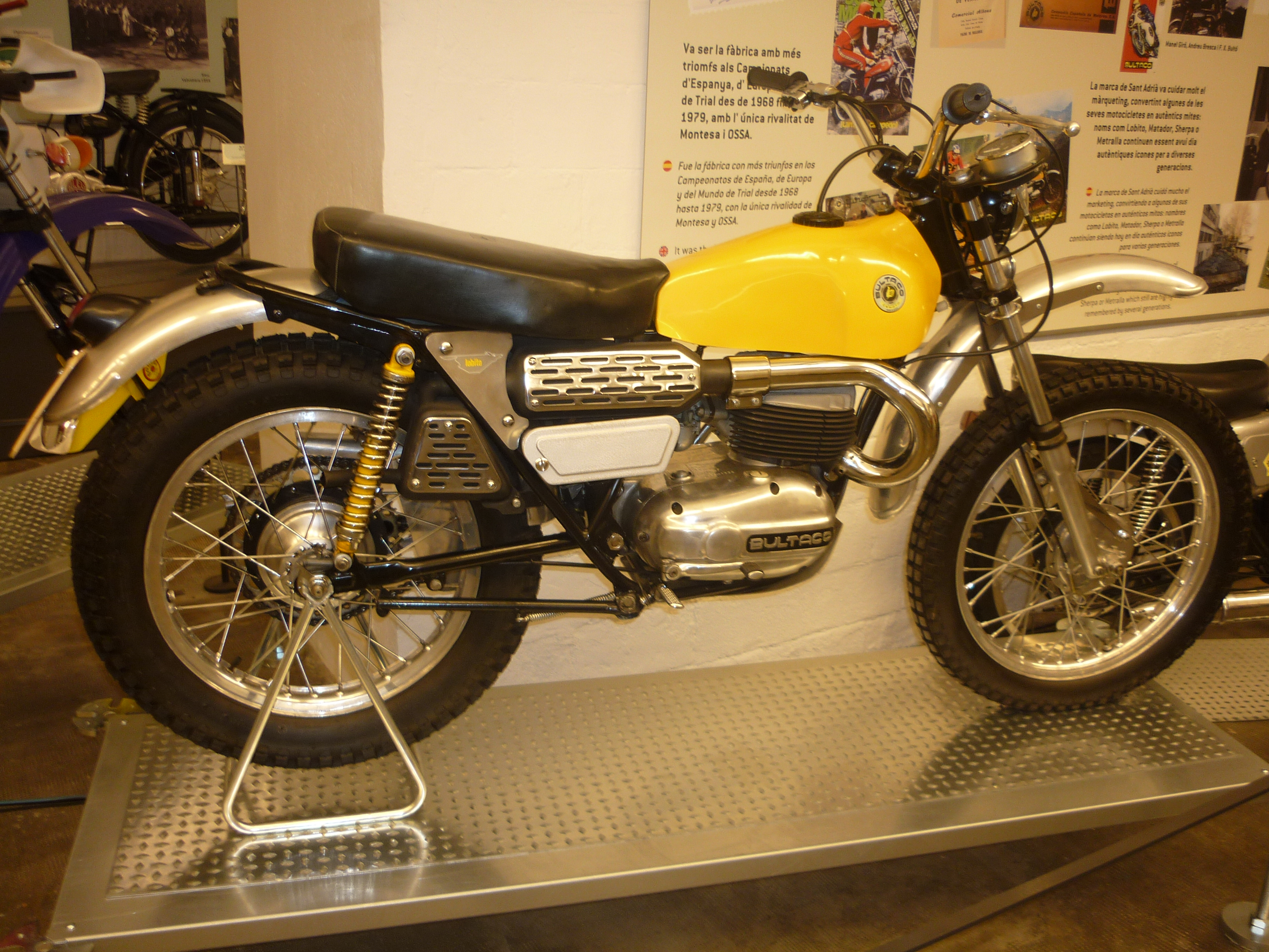 Bultaco Lobito MK3 125cc (1969).Museu de la Moto de Barcelona (Catalonia).